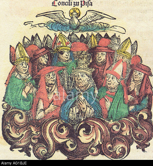 council-of-pisa-1409-allegory-woodcut from Michael Wohlgemut (1434-1519) He painted it round 1409